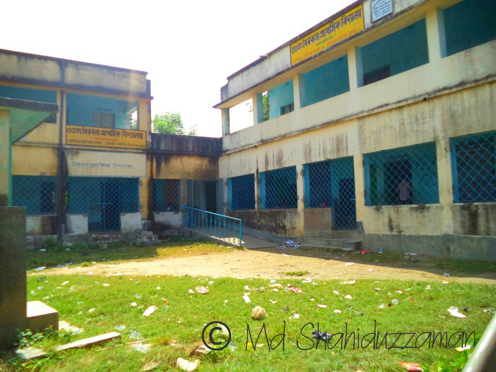 Bairbona Primary School